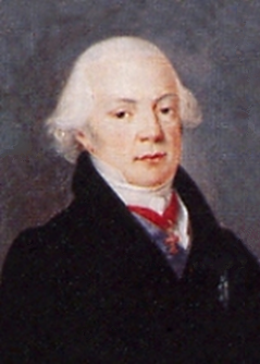 Domingos António de Sousa Coutinho, 1st Marquis of Funchal (1760-1833)